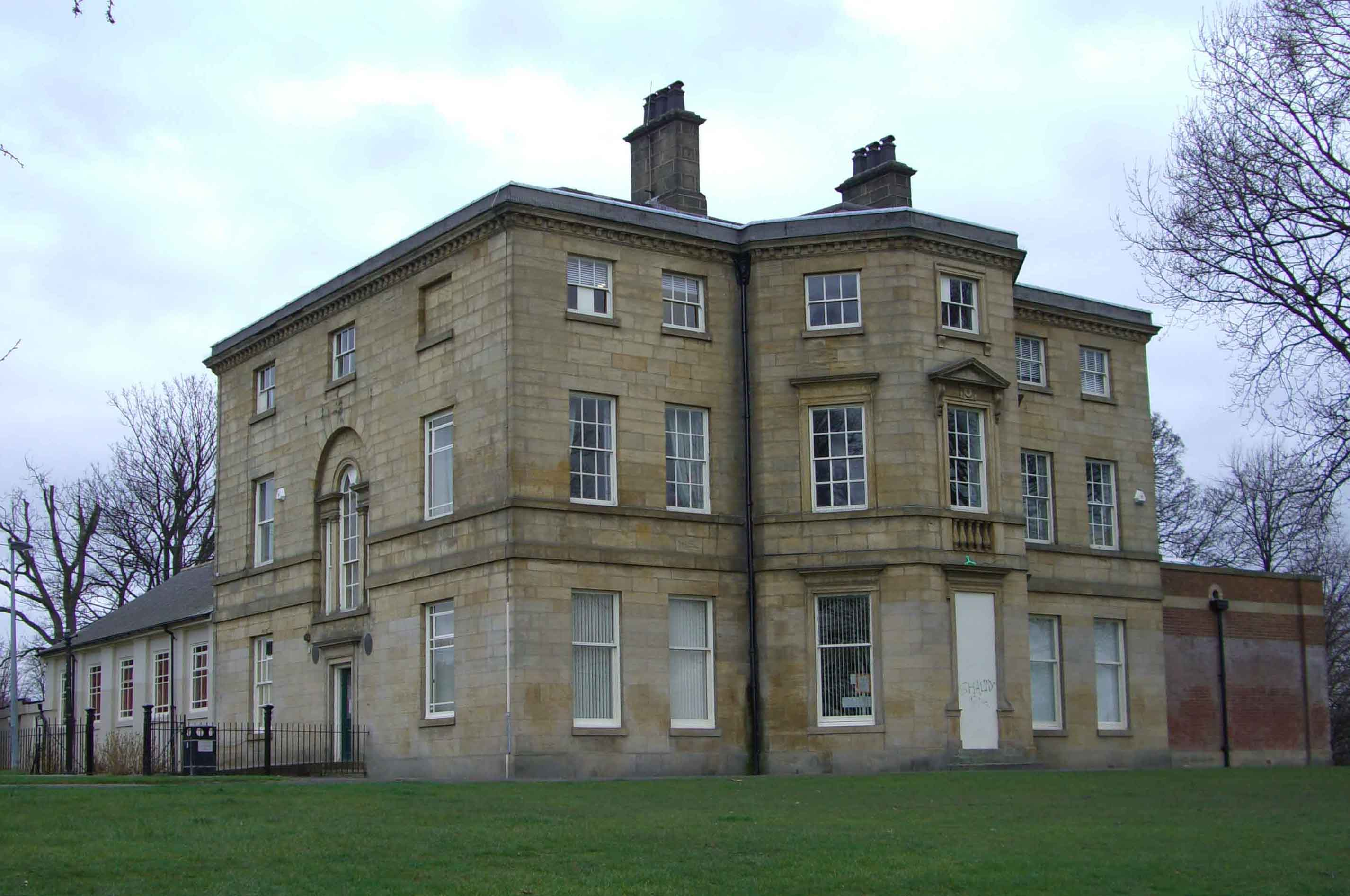 Hillsborough Hall, Hillsborough, Sheffield, South Yorkshire, seen from the south. Now a public library, for which the brick extension on the left was added.